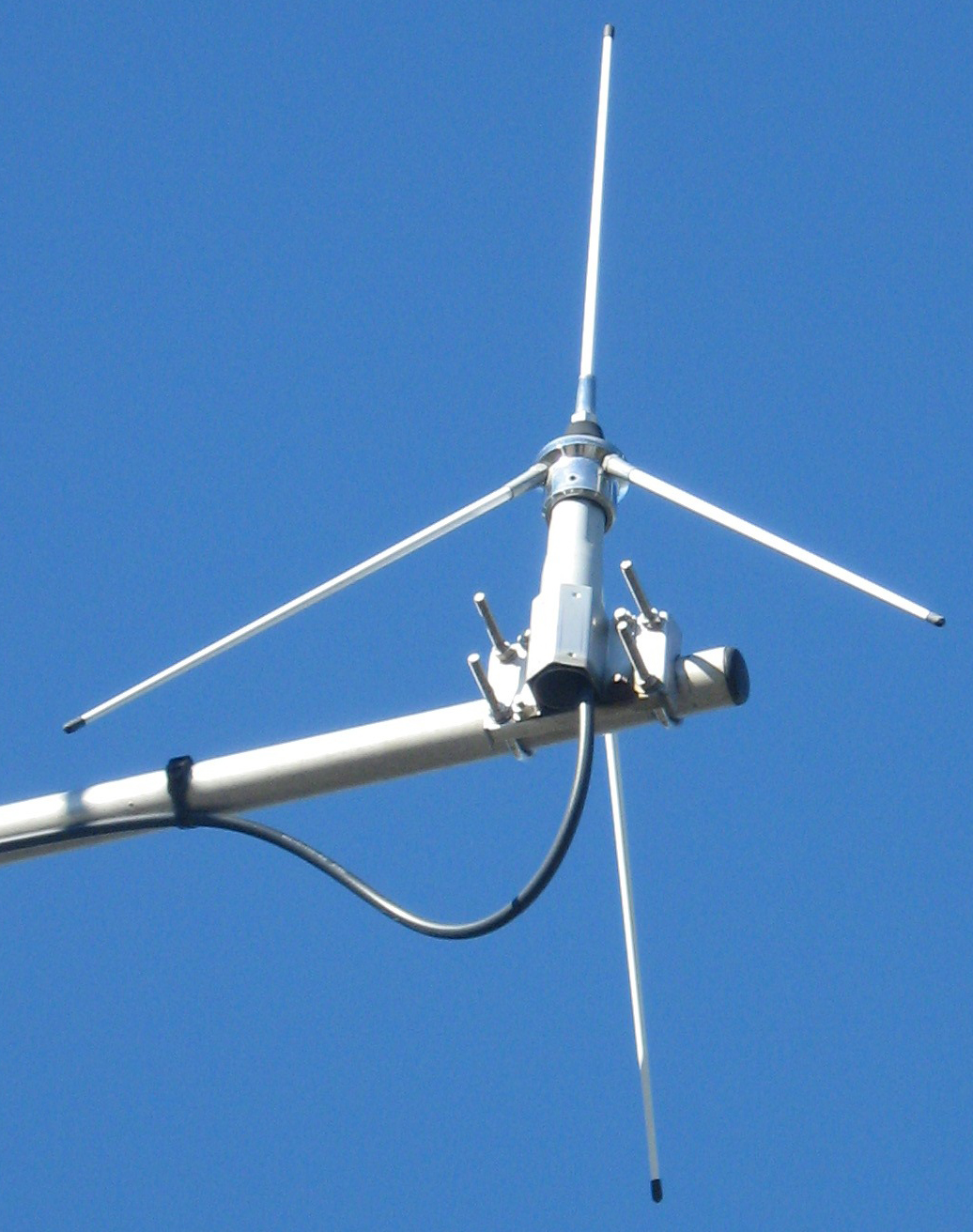 VHF ground plane antenna. This is a quarter-wave whip (monopole) antenna (white rod at top) with three grounded quarter-wave conductors projecting down from the base of the whip to form a "ground plane". Ground plane antennas have an omnidirectional radiation pattern, radiating equal signal strength in all azimuthal directions, with the radiated power maximum in a horizontal direction and decreasing with elevation angle to zero on the antenna axis. The ground conductors serve to increase radiated power in the horizontal direction to twice the gain of a dipole, or 5.19 dB. If the ground plane wires extended out horizontally from the base of the monopole the impedance would be half that of the dipole, or 36.5 ohms. However the downward slant of the ground plane wires serves to increase the antenna impedance, so the antenna is a good match for the 50 ohm coaxial cable feedline.